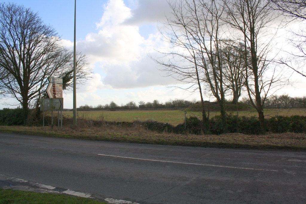 Asthall Barrow with tree from B4047 junction